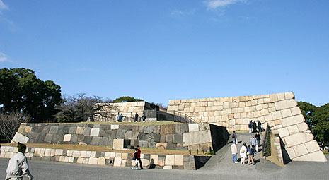 Stone foundation of the main tower at Edo Castle in Tokyo, Japan.